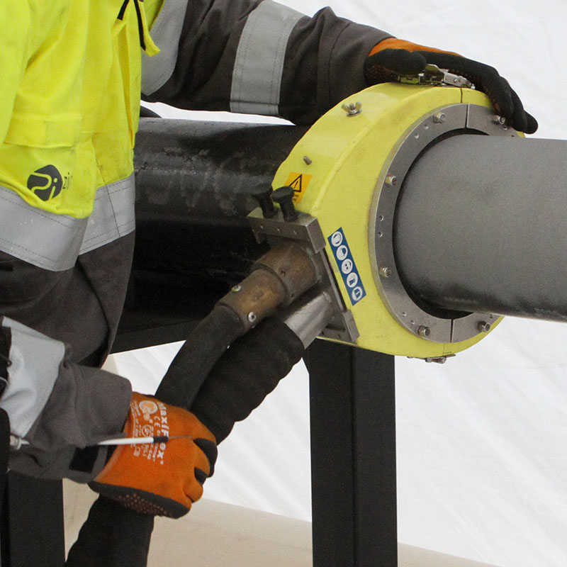 PiCo Pipe, a vacuum blasting tool by Pinovo, used for dustless blasting of pipes.